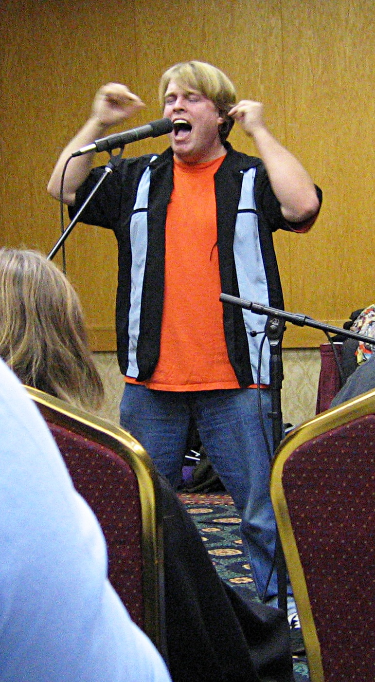 Luke Ski at WindyCon 2005